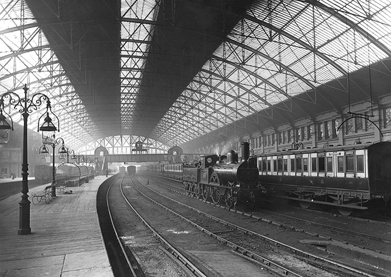 New Street Station in Victorian Times, before redevelopment in the 1960's